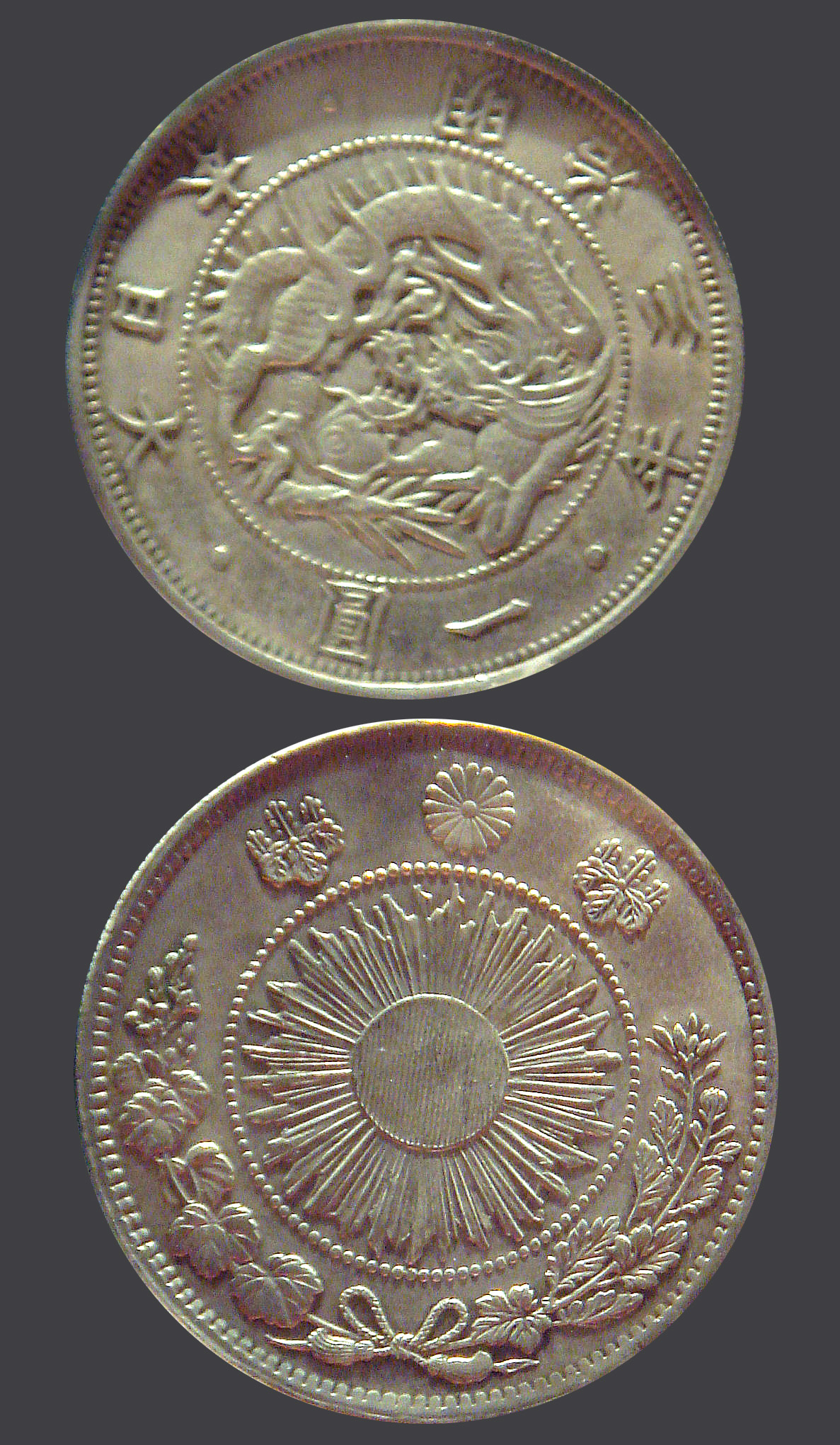 Early_silver_one_yen_coin_Japan.